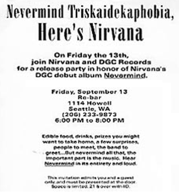 Part of the release party flyer handed out before the release of Nevermind (due to copyright reason the flyer has been cropped).